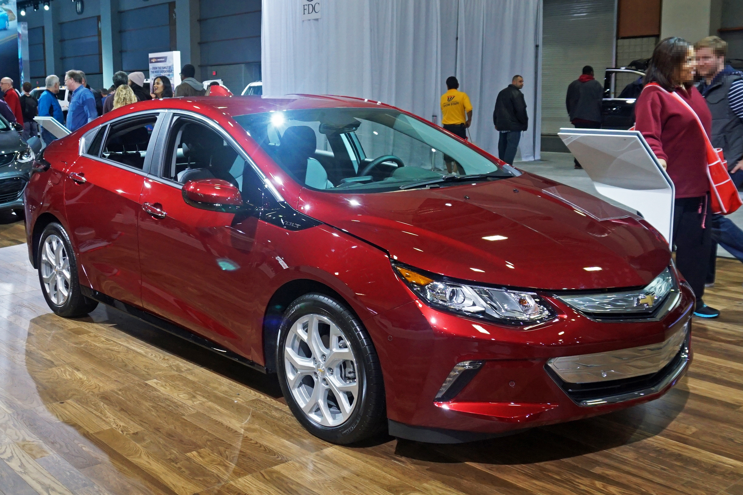 2017 Chevrolet Volt second generation at the 2017 Washington Auto Show, DC, USA.